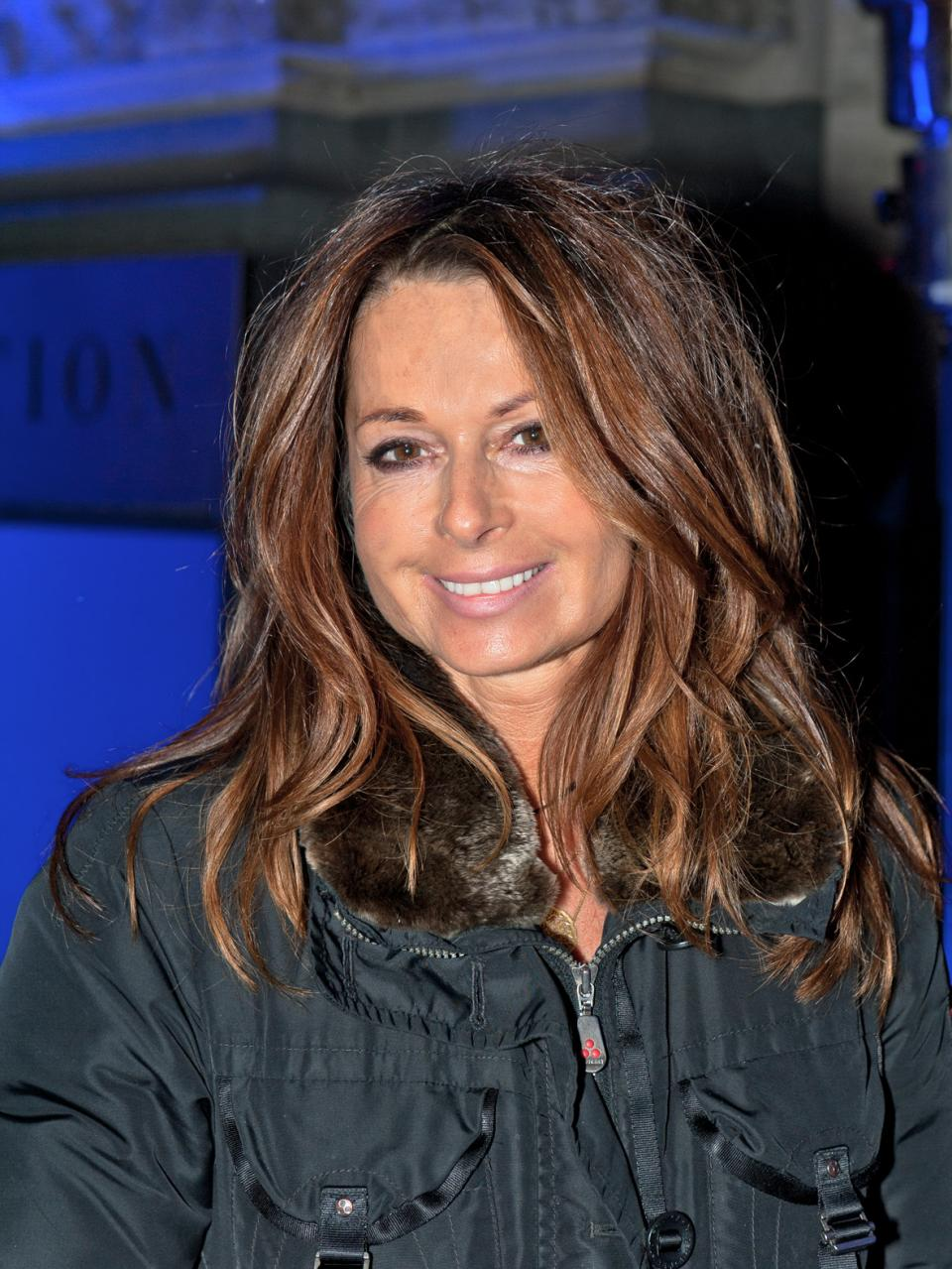 Christina Plate, German actress, Berlinale 2012, ARD Degeto Blue Hour Party